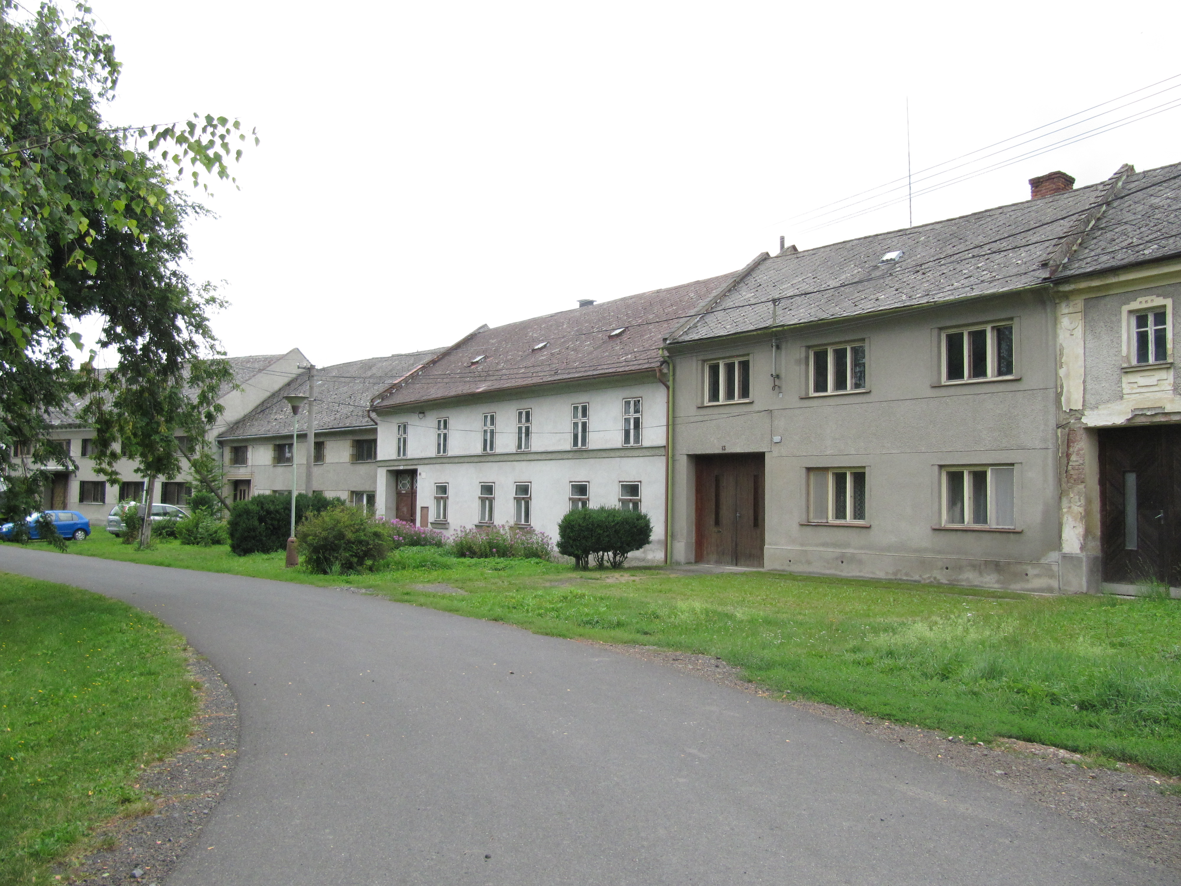 Dubčany in Olomouc District, Czech Republic. Village green.